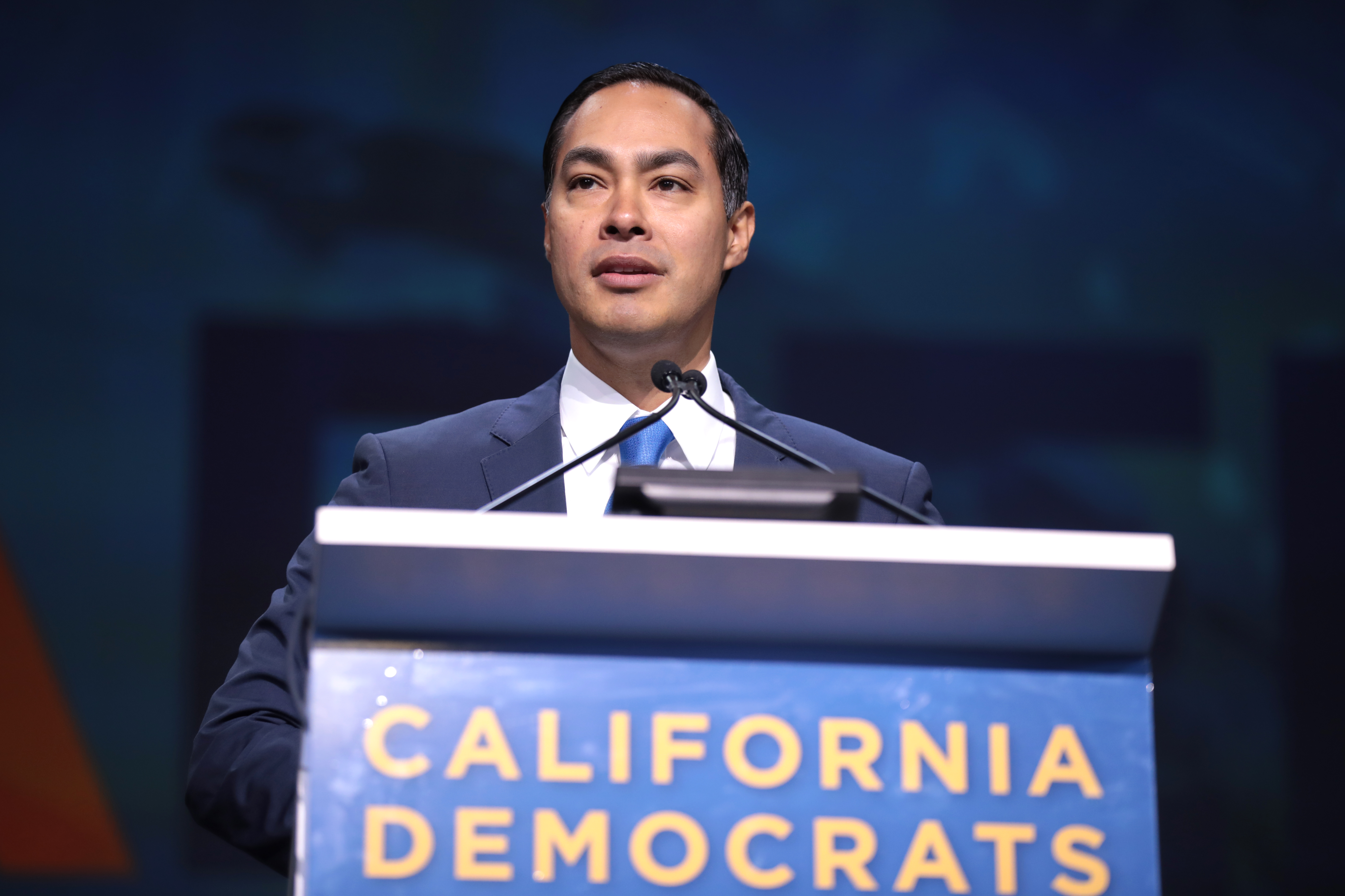 Former U.S. Secretary of Housing and Urban Development speaking with attendees at the 2019 California Democratic Party State Convention at the George R. Moscone Convention Center in San Francisco, California.